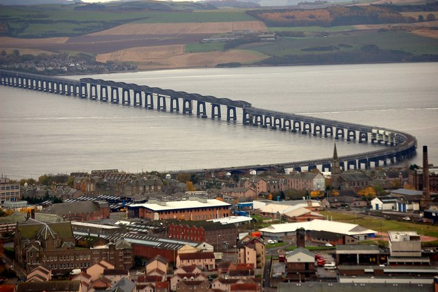 The Tay Rail Bridge The highest point in Dundee is at the top of the volcanic plug know as Dundee Law. This is where the memorial to the local men and women who lost their lives in 1914-18 war is situated. It is a good point to view Dundee and the Tay estuary. this picture shows the Tay Rail Bridge